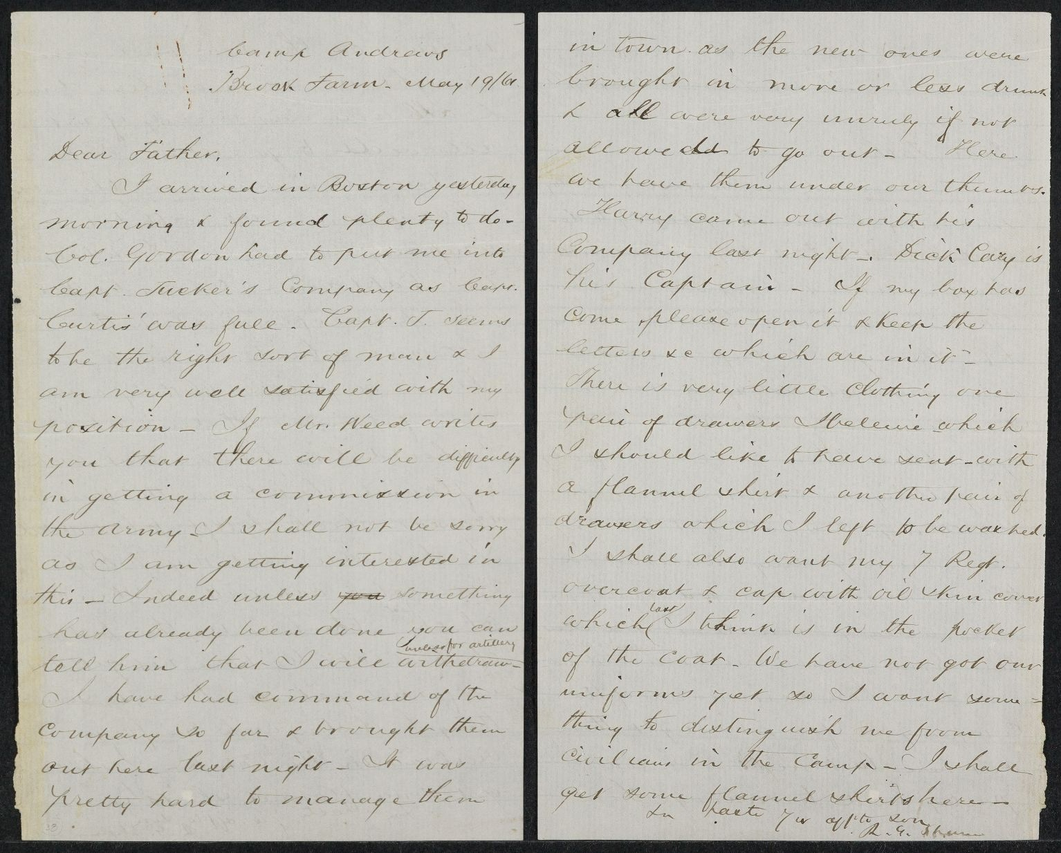 ALS Manuscript letter from Robert Gould Shaw (1837-1863) to Francis George Shaw, 19 May 1861. Written from Camp Andrew, Brook Farm, Massachusetts. Full letter, two pages on one image. MS Am 1910 (38), Houghton Library, Harvard University